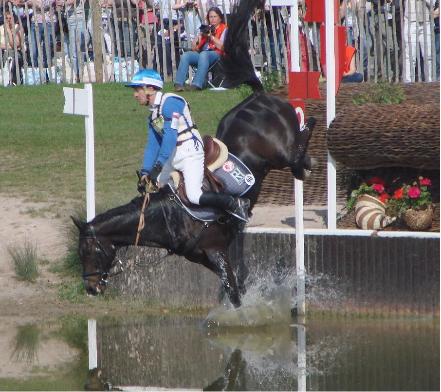 It says a lot about the quality of riders and horses that this horse got it's hind legs under it, the rider stayed on, they came out of the lake unscathed and finished the course. I think this is 90, so it's Rodolphe Scherer (FRA) on Good Enough. They finished 19th overall.